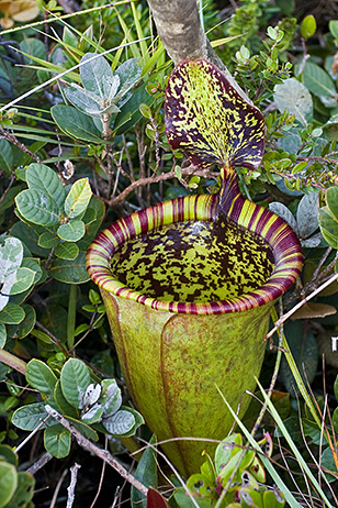 A lower pitcher of Nepenthes attenboroughii demonstrating the characteristic campanulate shape and upright lid of this species (Alastair Robinson, June 2007)